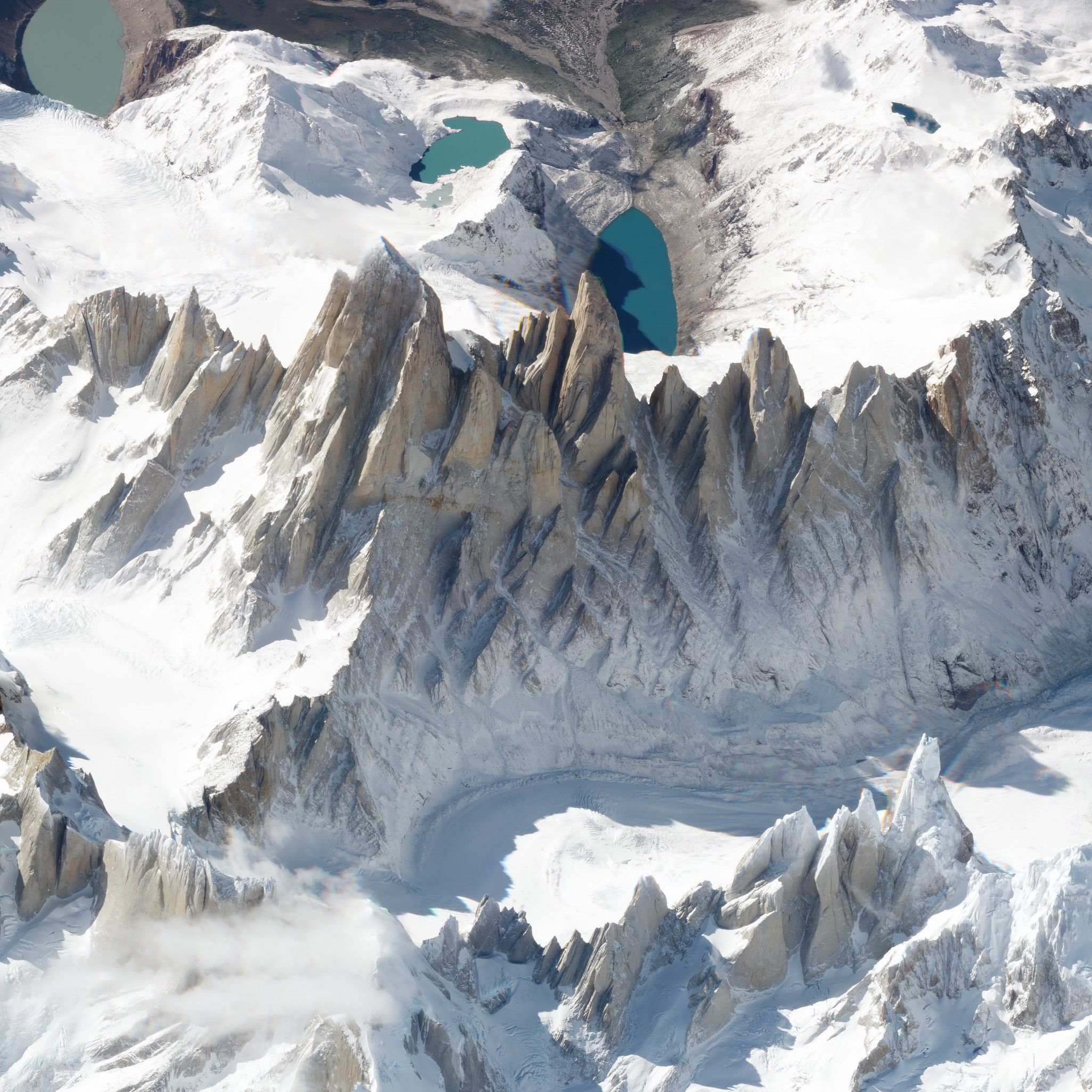 SkySat satellite image of Monte Fitz Roy in Patagonia